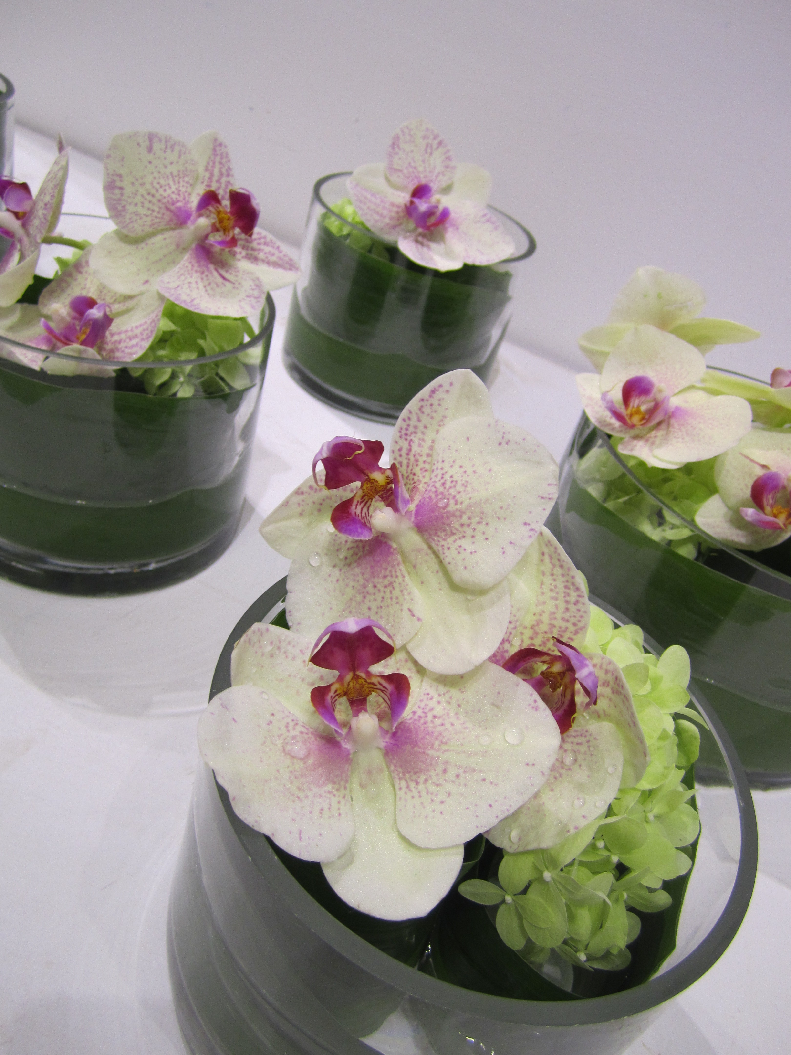 Phalaenopsis Orchid Floral Arrangement in vases